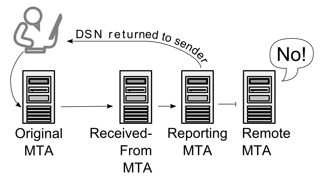 RFC 3464 diagram of MTAs involved in the creation of a Delivery Status Notification.